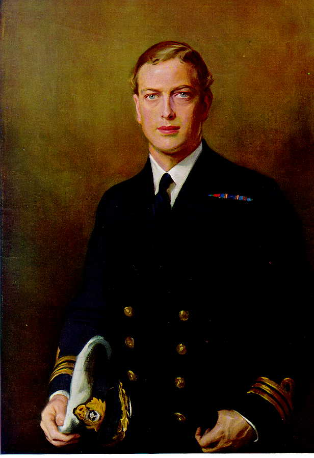 Portrait of Prince George, Duke of Kent (1902 - 1942), painted in 1934.